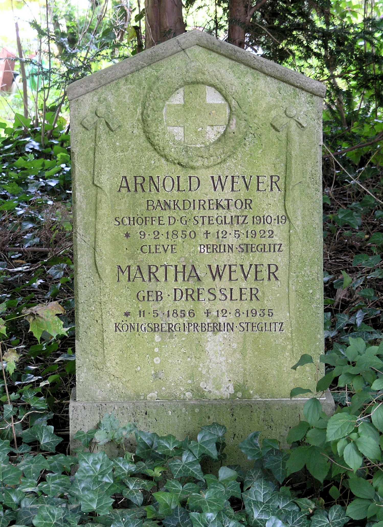 Graves, Arnold Wever, Bergstraße 38, Berlin-Steglitz, Germany Koordinate:52°27′31″N 13°20′33″E / 52.45861°N 13.3425°E